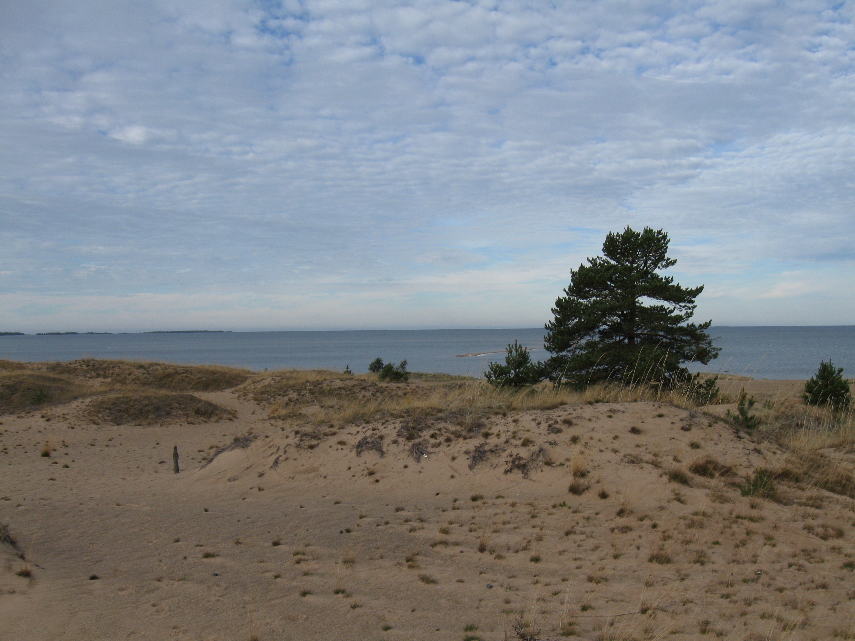 Dunes in the Hiekkasärkät area of Kalajoki, Finland.